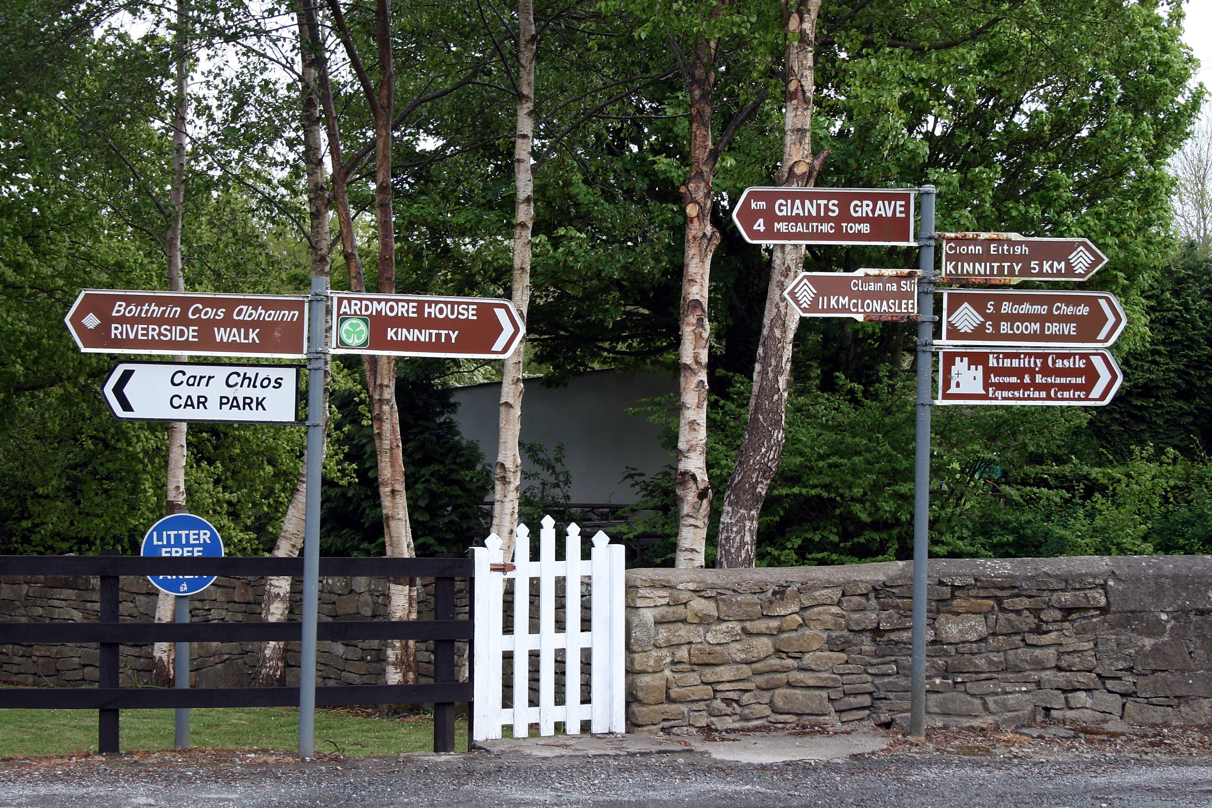 Tourist signs in Cadamstown, County Offaly